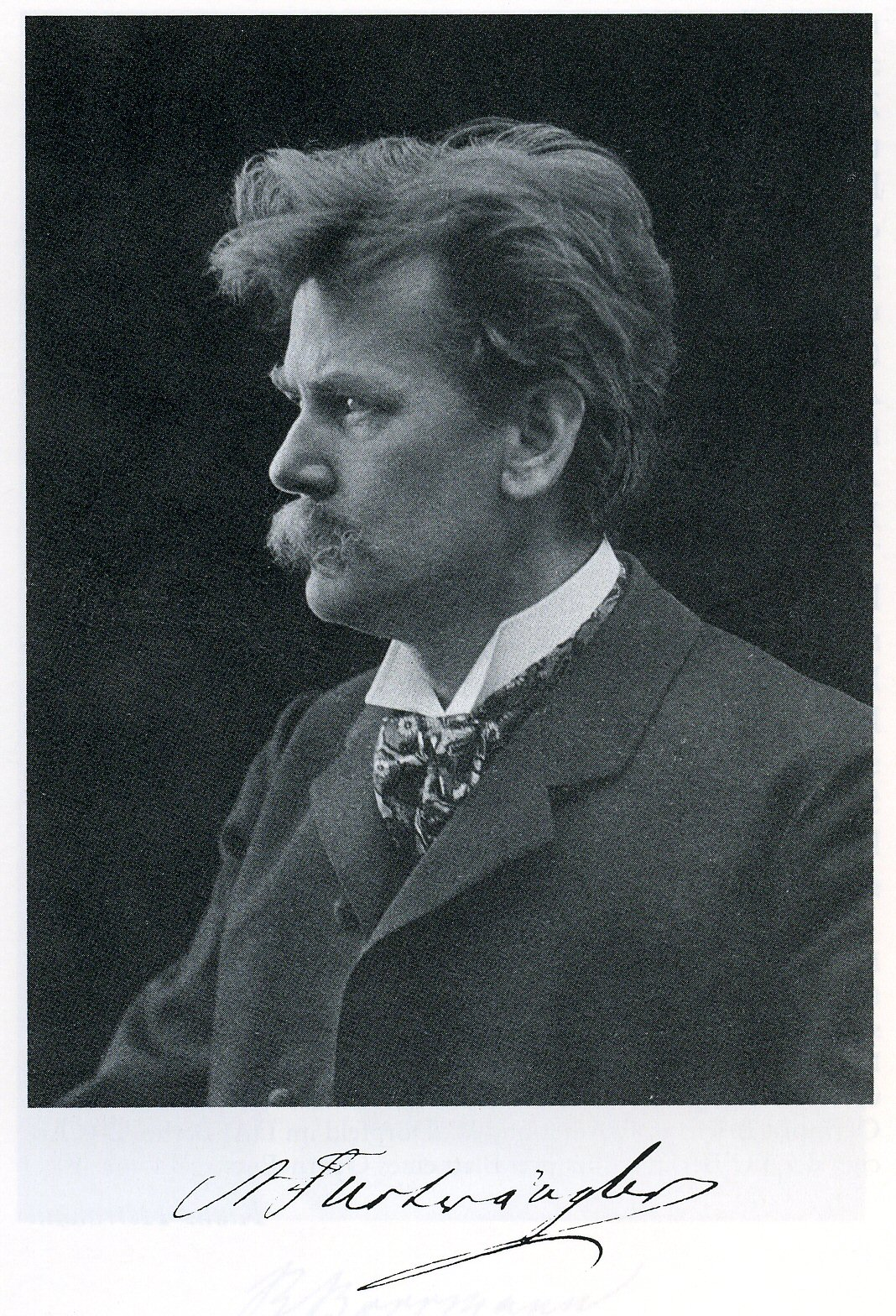 German Archaeologist Adolf Furtwängler (1853-1907)